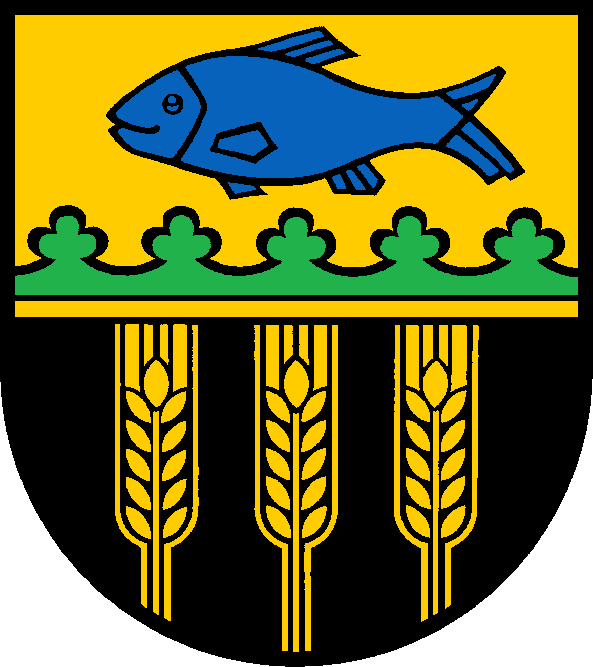 Coat of arms of the municipality Buchholz in Schleswig-Holstein, Germany.